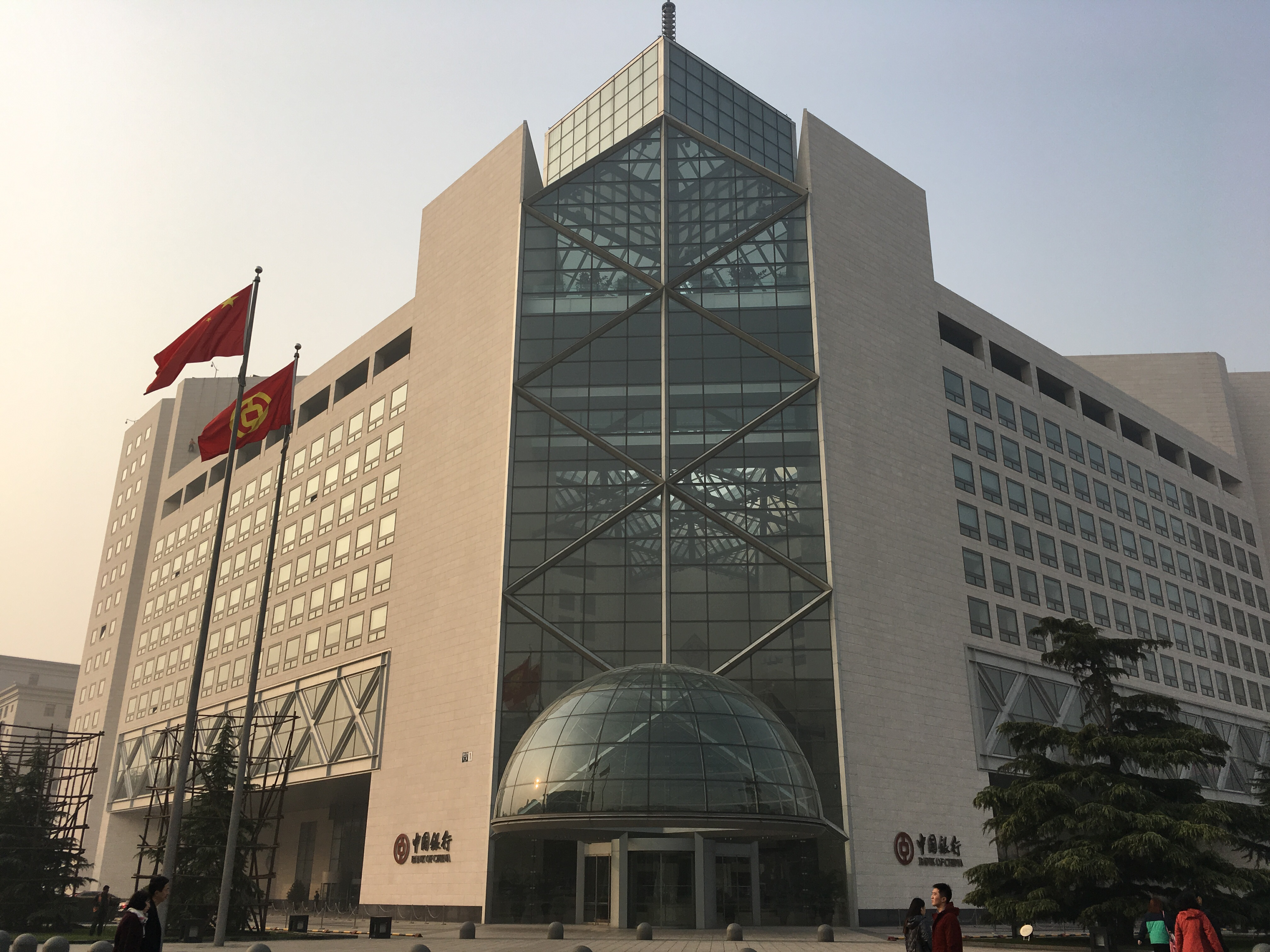 The headquarter of the Bank of China in Beijing.